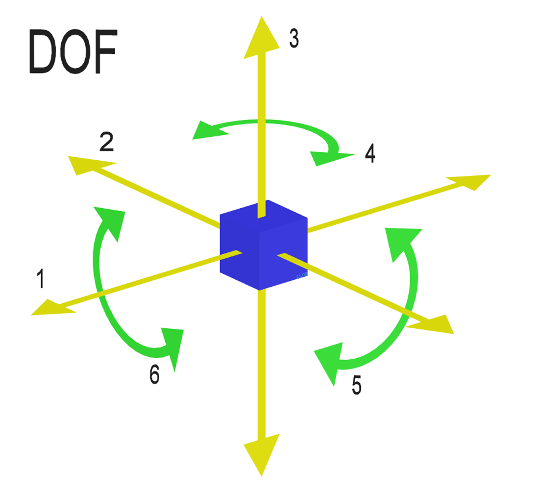 Illustrative picture of the degrees of freedom (DOF) for a solid motion.